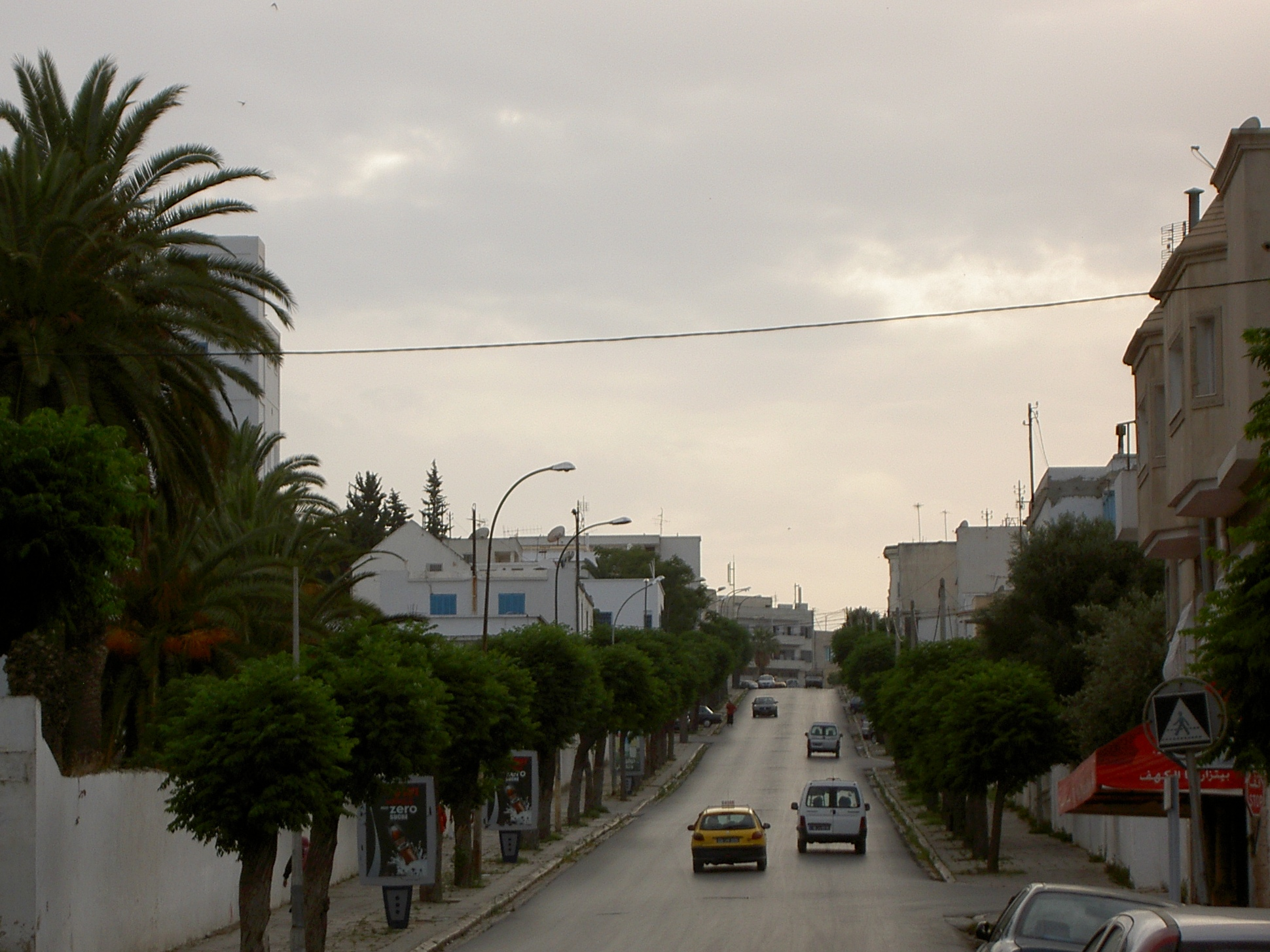 Monfleury, Tunis, Tunisia